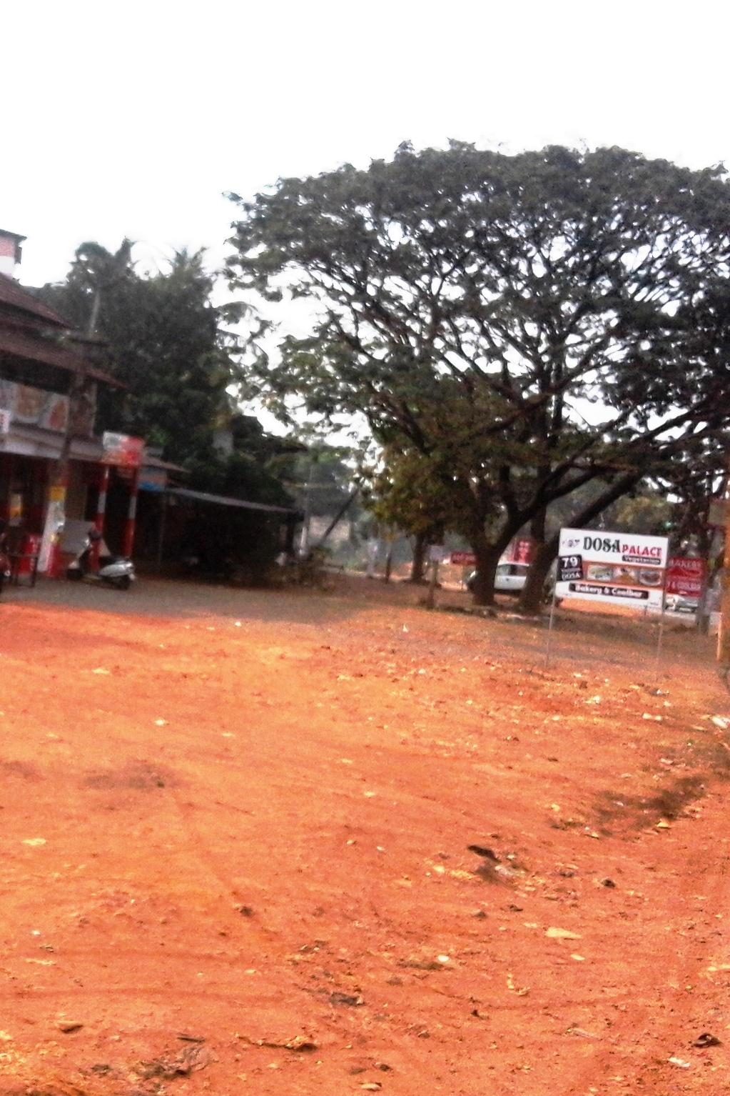 Kolappuram Junction, A.R.Nagar, Malappuram District, Kerala, India.